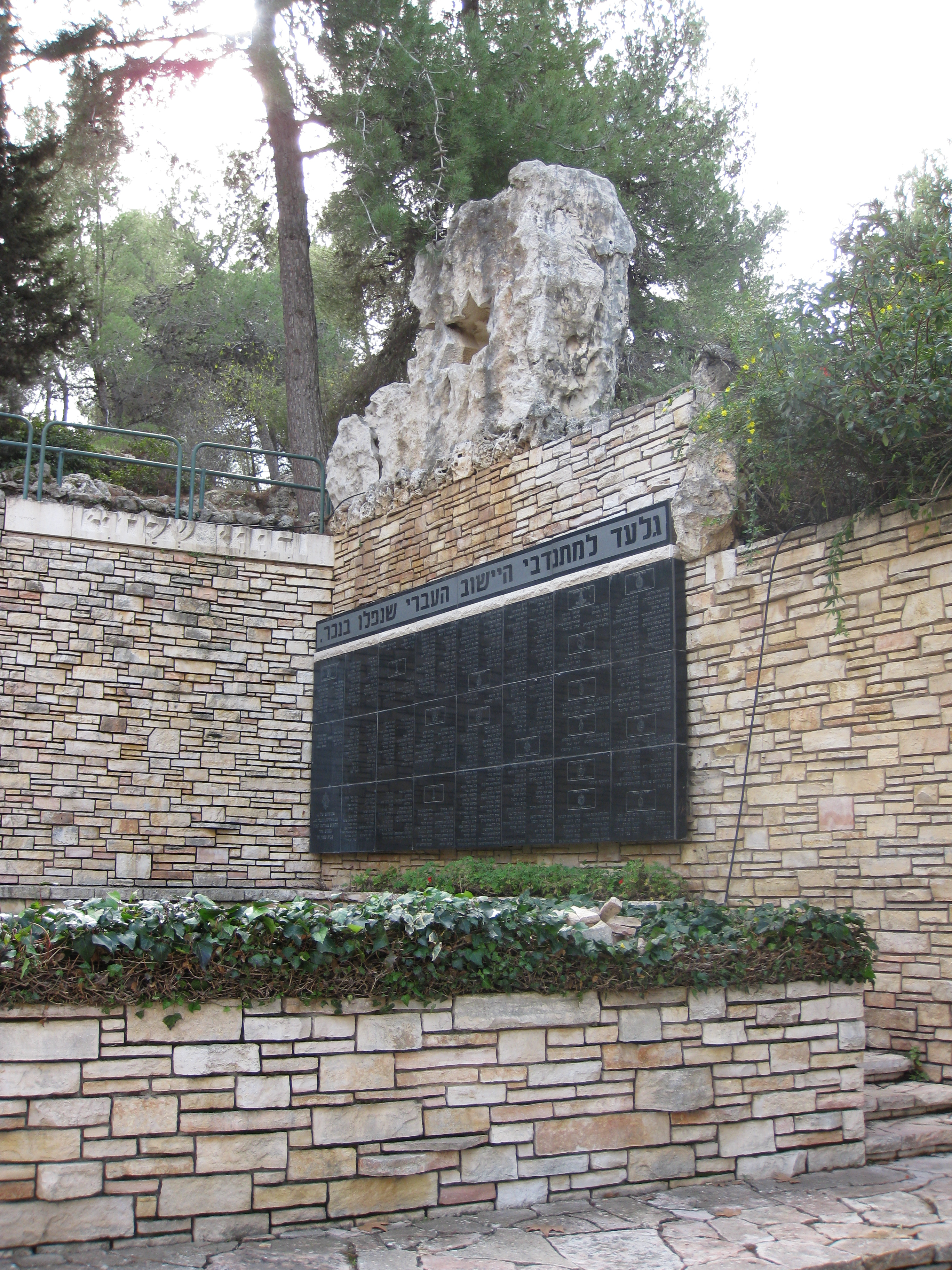 Memorial for the Yeshuv volunteers in World War II